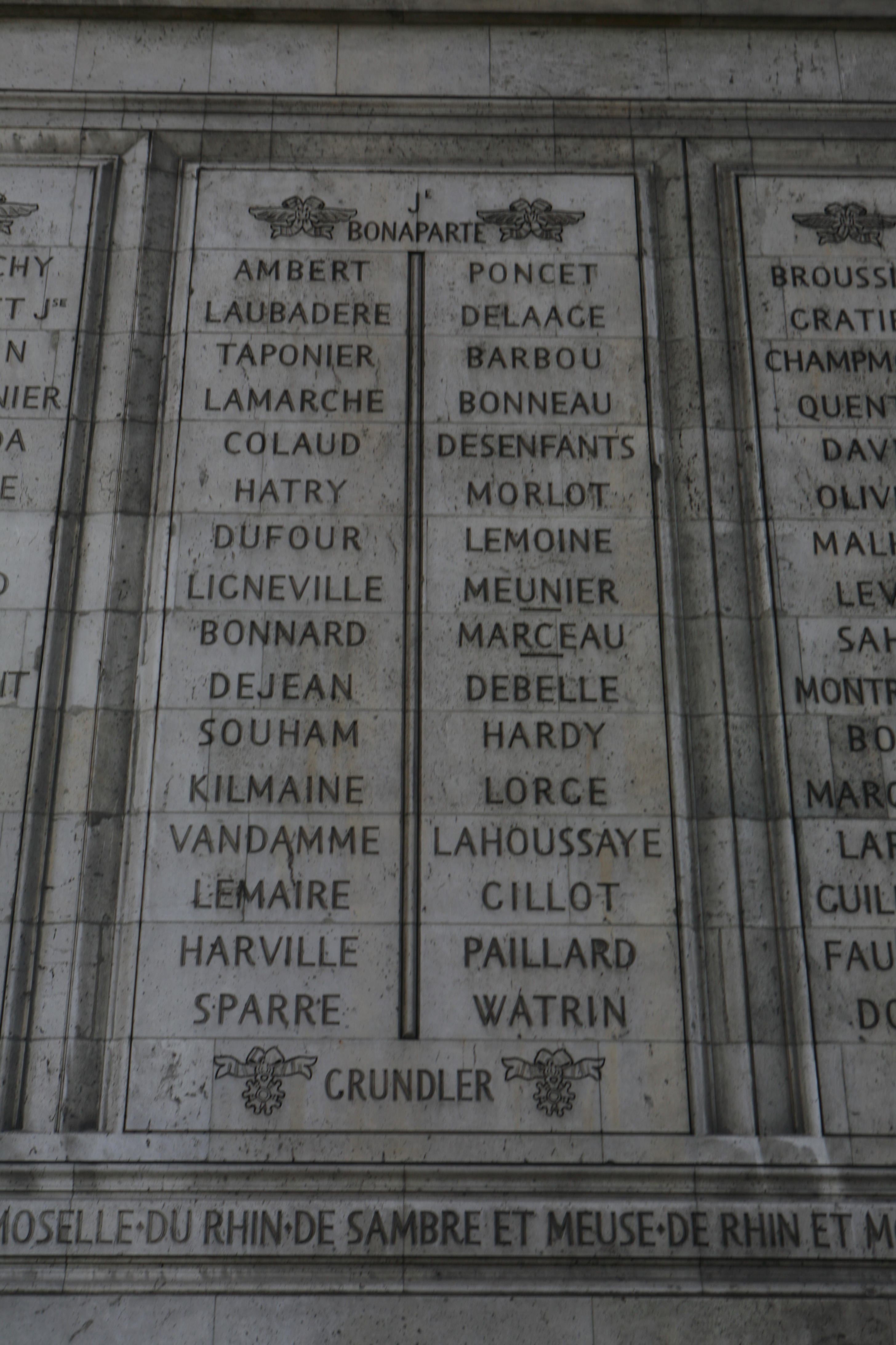 Details of the Arc de Triomphe. Northern pillar, Columns 5,6.